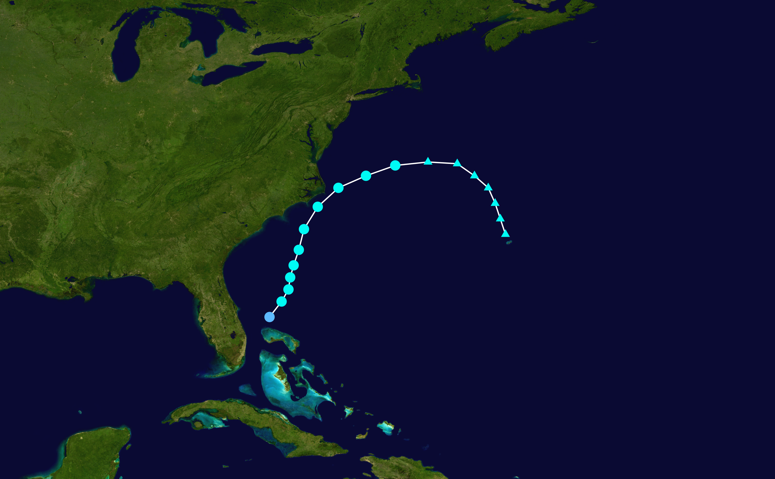 Track map of Tropical Storm Arthur of the 2020 Atlantic hurricane season. The points show the location of the storm at 6-hour intervals. The colour represents the storm's maximum sustained wind speeds as classified in the Saffir–Simpson scale (see below), and the shape of the data points represent the nature of the storm, according to the legend below. Saffir–Simpson scale Tropical depression≤38 mph≤62 km/h Category 3111–129 mph178–208 km/h Tropical storm39–73 mph63–118 km/h Category 4130–156 mph209–251 km/h Category 174–95 mph119–153 km/h Category 5≥157 mph≥252 km/h Category 296–110 mph154–177 km/h Unknown Storm type Tropical cyclone Subtropical cyclone Extratropical cyclone / Remnant low / Tropical disturbance / Monsoon depression